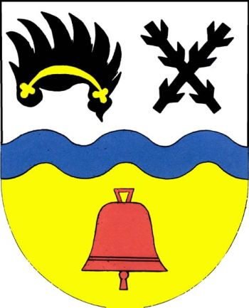 Skrchov CZ CoA